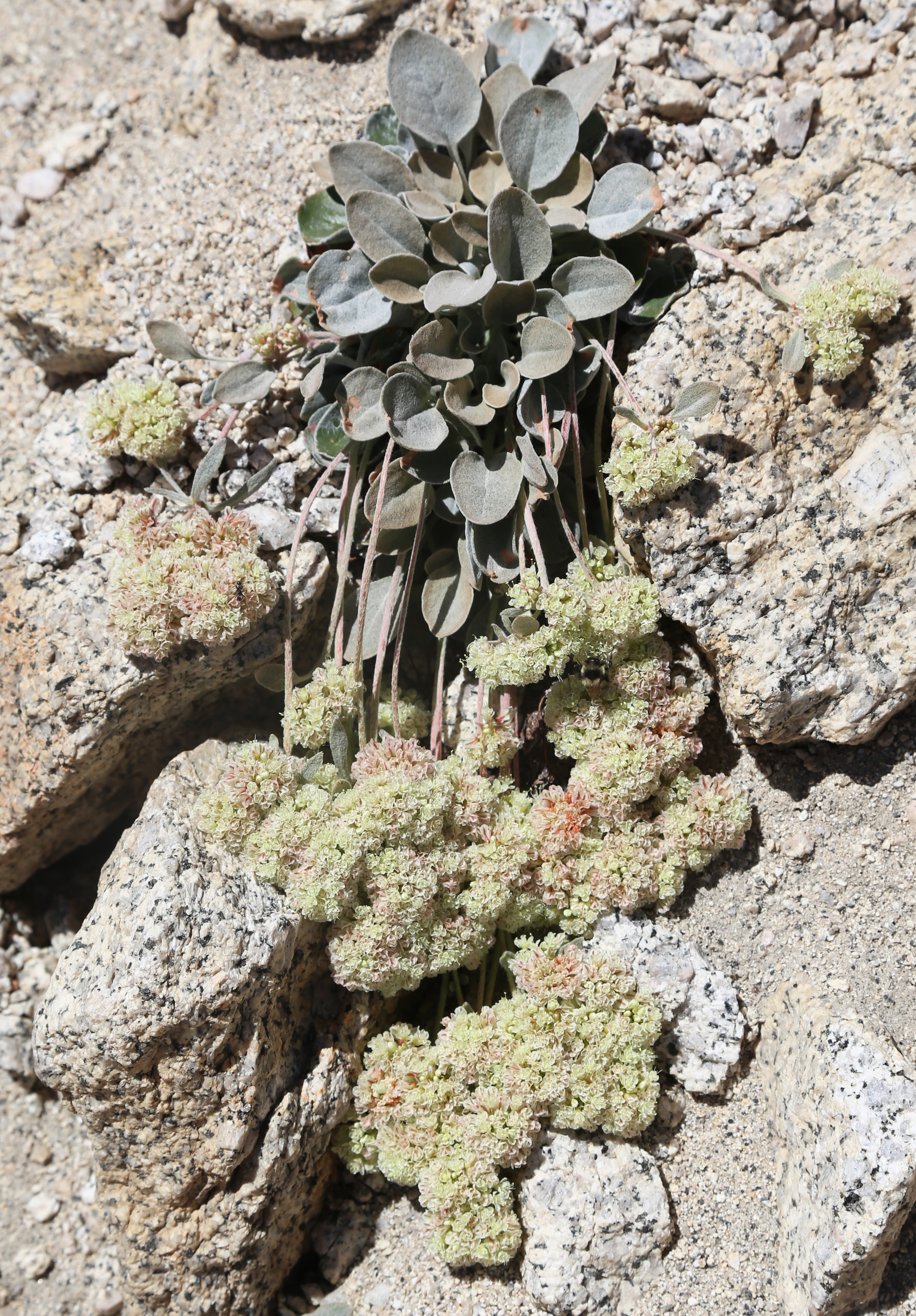 Prostrate buckwheat, or Lobb's buckwheat (Eriogonum lobbii) rosette with green flower clusters on downswept, prostrate stems. At 11,600 ft (3,500 m) along the trail to Mono Pass, John Muir Wilderness, Sierra Nevada USA.